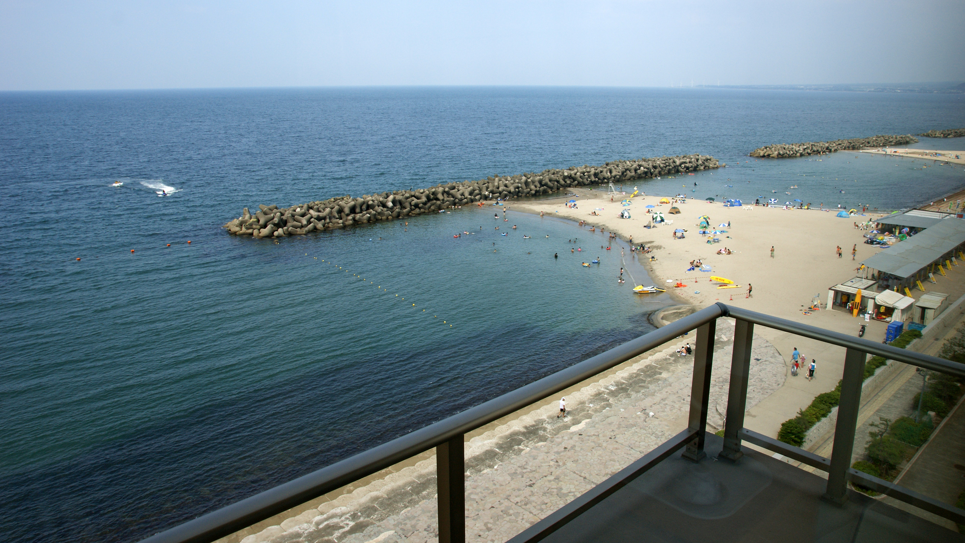 Kaike Onsen in Yonago, Tottori prefecture, Japan